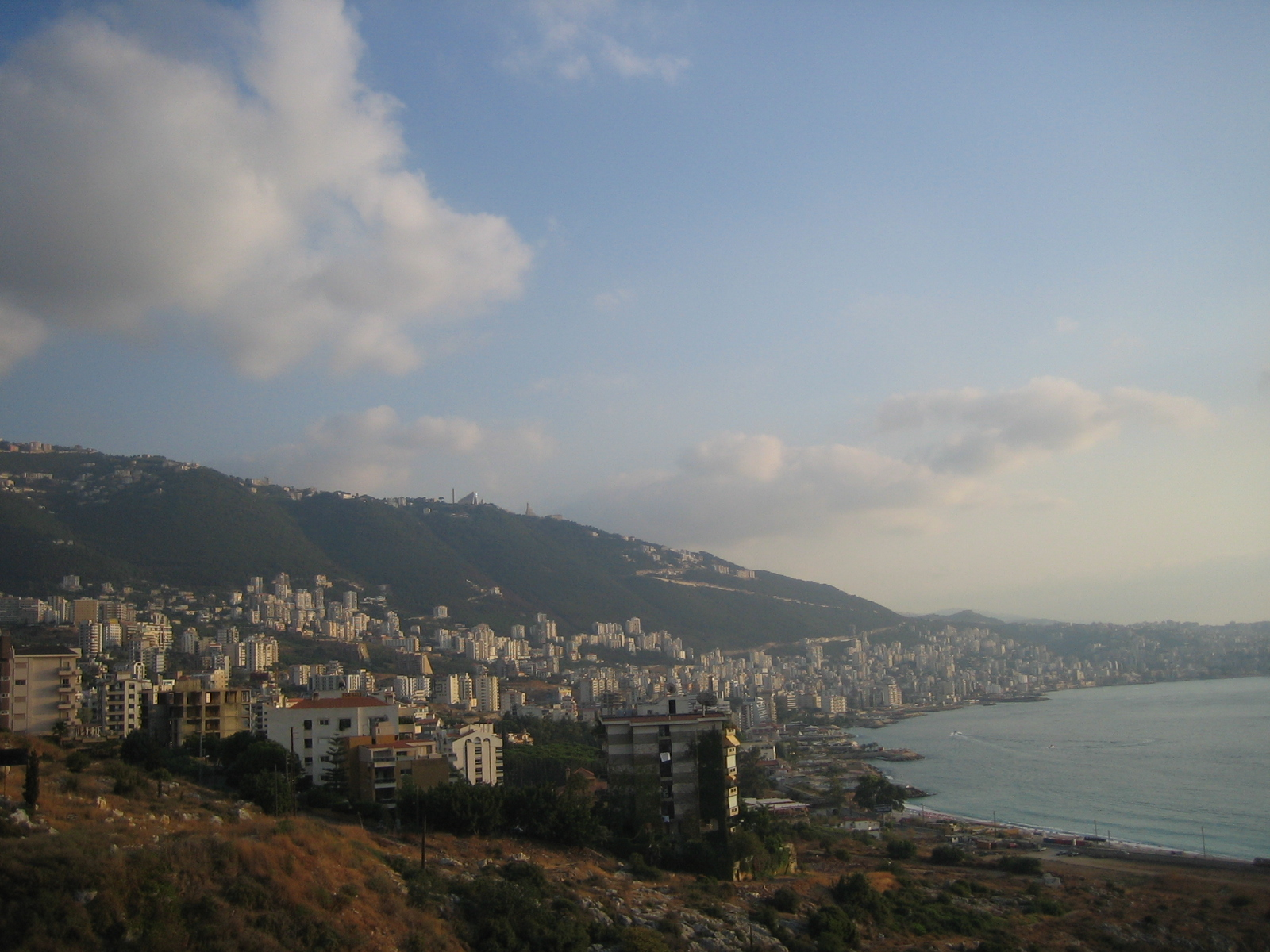 Jounieh, Lebanon, looking south, just north of the main bridge connecting Jounieh to Byblos. (The bridge was destroyed in July, 2006, by Israeli missiles.) At the right of the picture is the Mediterranean Sea. Harissa, with the Statue of Notre Dame du Liban (Our Lady of Lebanon) and the Basilica of St. Paul, can be seen at the top of the mountain in the center of the image.